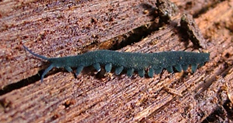 Cropped version of File:Euperipatoides kanangrensis.jpg